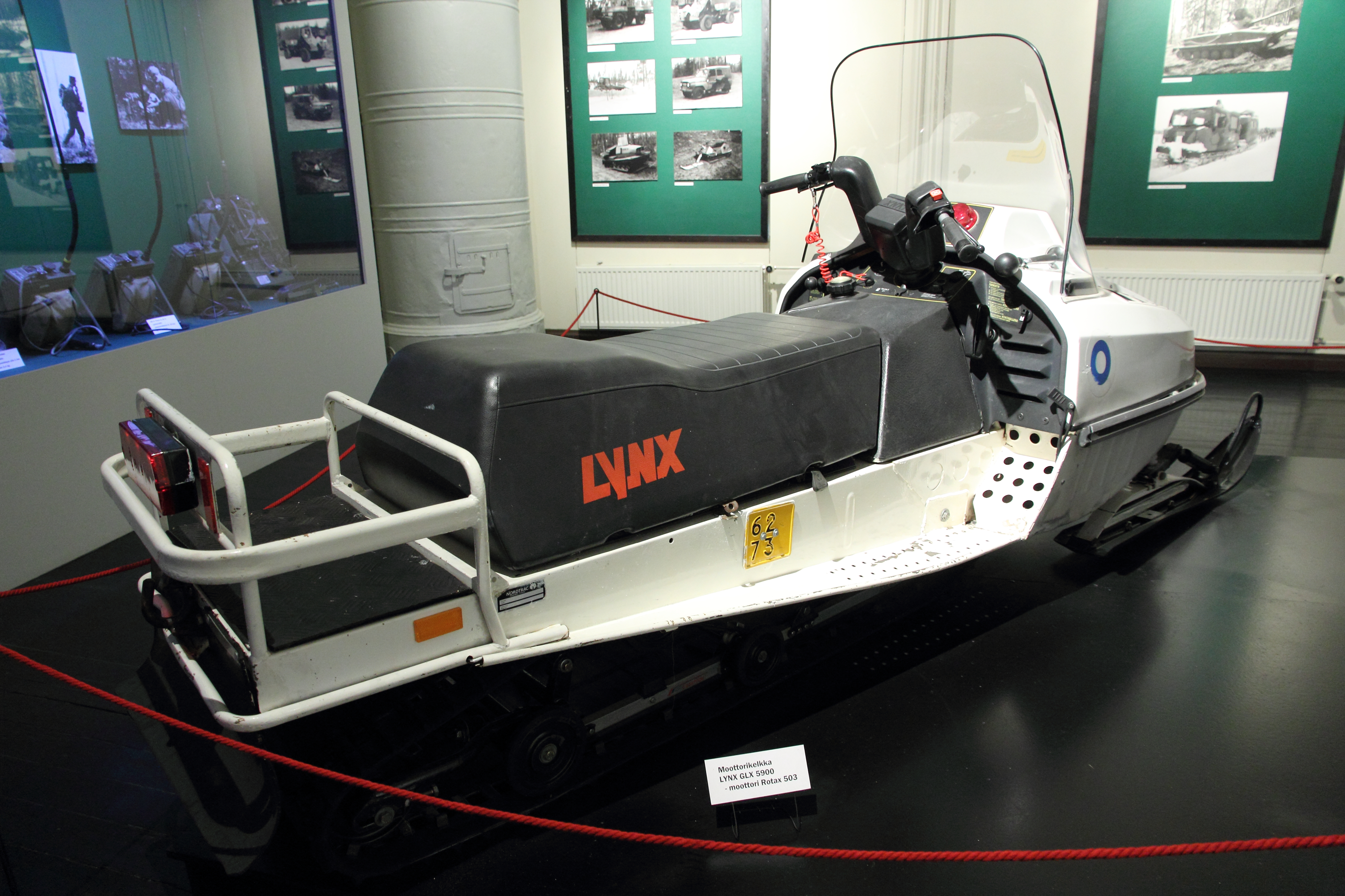 Lynx GLX 5900 snowmobile with Rotax 503 engine used by Finnish army. Photographed in Mikkeli infantry museum.